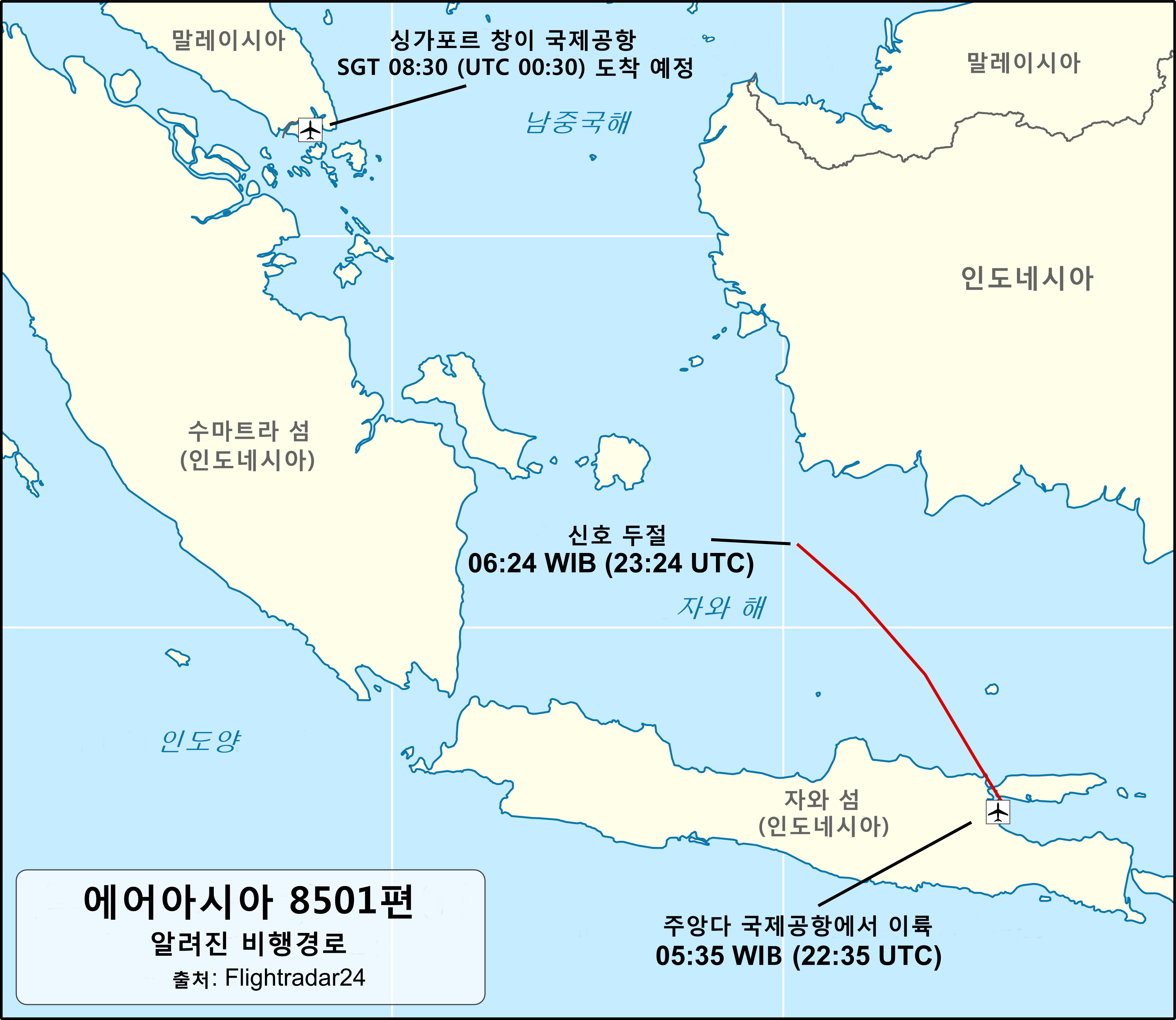 Flight path of Indonesia AirAsia Flight 8501.